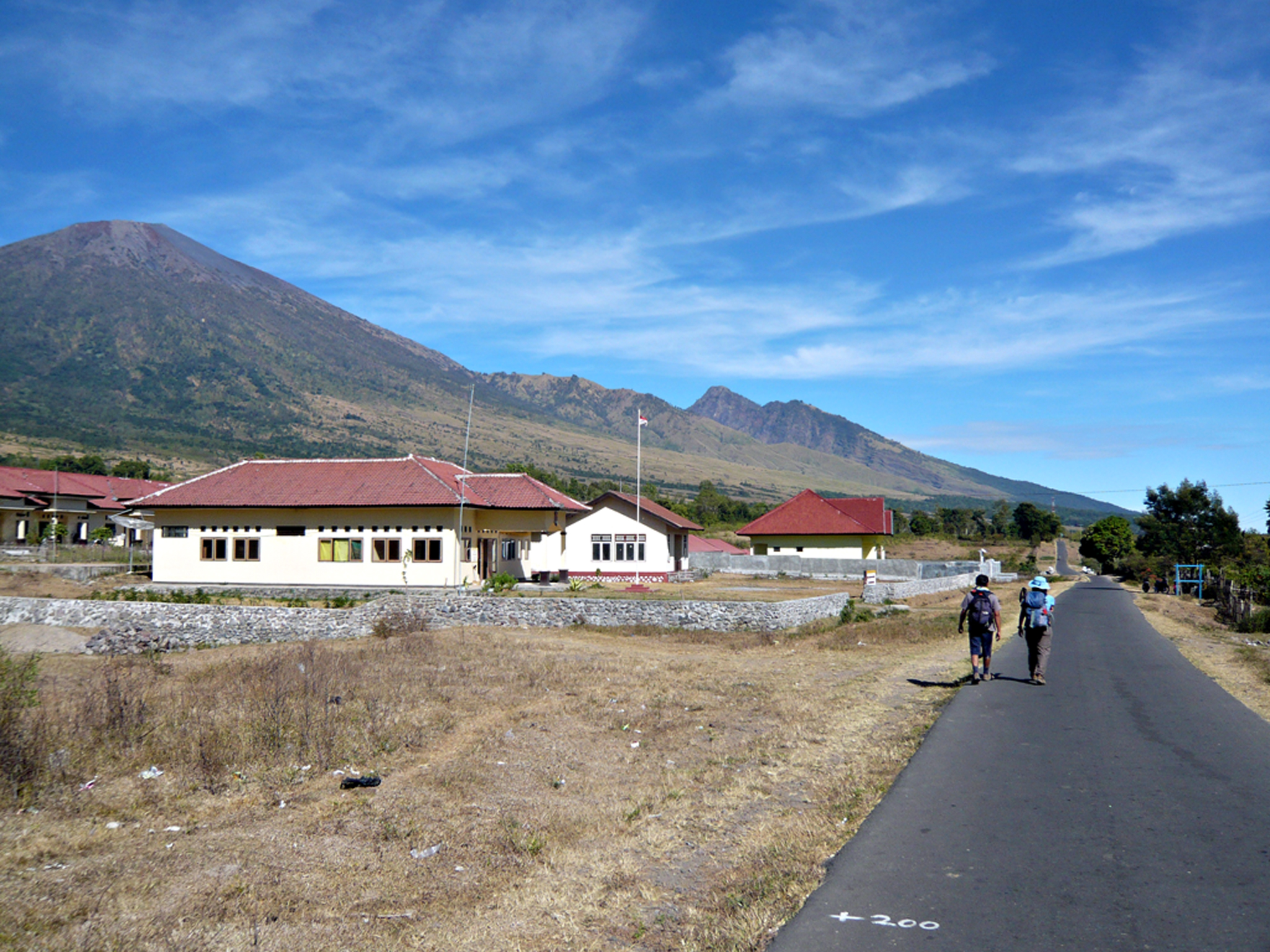 Sembalun Lawang, 1100m, starting point to Mount Rinjani. 30Jul2008 8:37